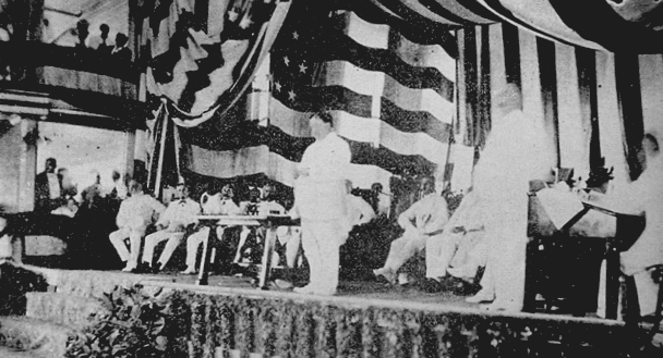 William Howard Taft, with Governor-General James E. Smith, Addressing the audience while reading a proclamation from president Theodore Roosevelt establishing the Philippine Assembly.